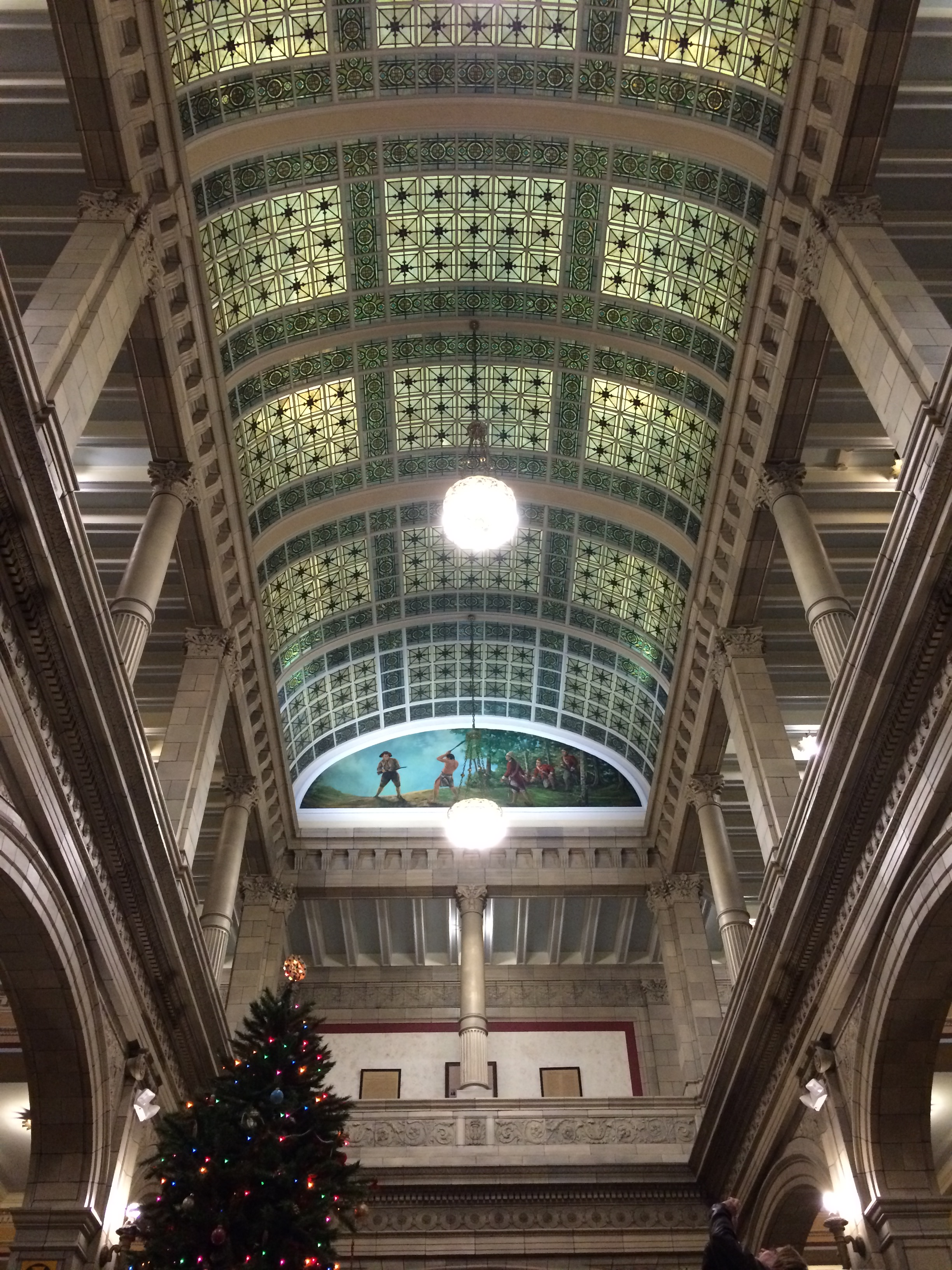 Stained glass skylight in Hardin County Courthouse in Hardin County, Ohio.